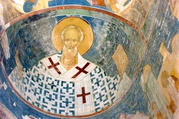 Fresco by Dionisius in the Ferapontov Convent, Russia. This is a faithful photographic reproduction of a two-dimensional, public domain work of art. The work of art itself is in the public domain for the following reason: This work is in the public domain in its country of origin and other countries and areas where the copyright term is the author's life plus 100 years or less. You must also include a United States public domain tag to indicate why this work is in the public domain in the United States. This file has been identified as being free of known restrictions under copyright law, including all related and neighboring rights. The official position taken by the Wikimedia Foundation is that "faithful reproductions of two-dimensional public domain works of art are public domain". This photographic reproduction is therefore also considered to be in the public domain in the United States. In other jurisdictions, re-use of this content may be restricted; see Reuse of PD-Art photographs for details.